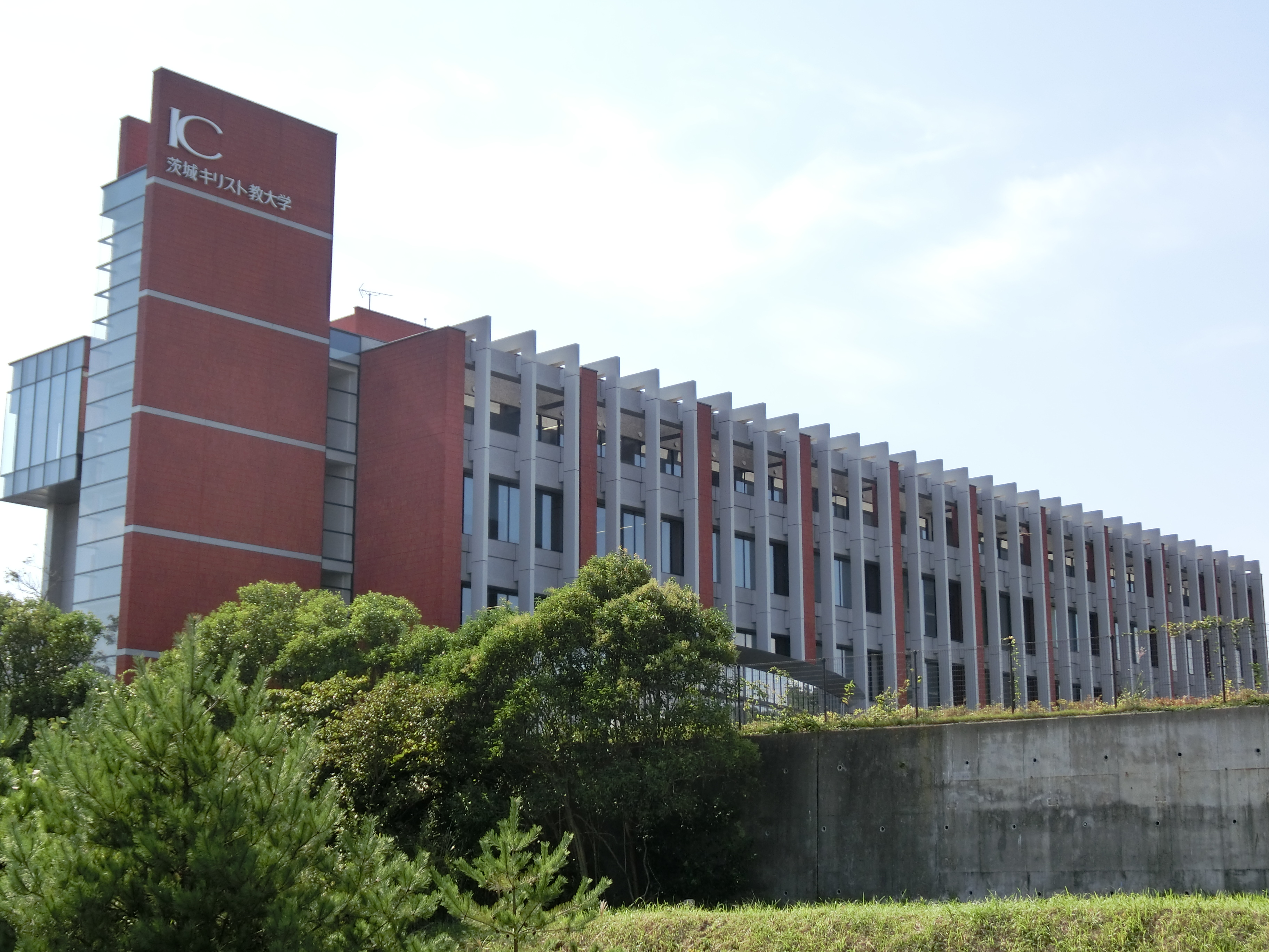 Ibaraki Christian University